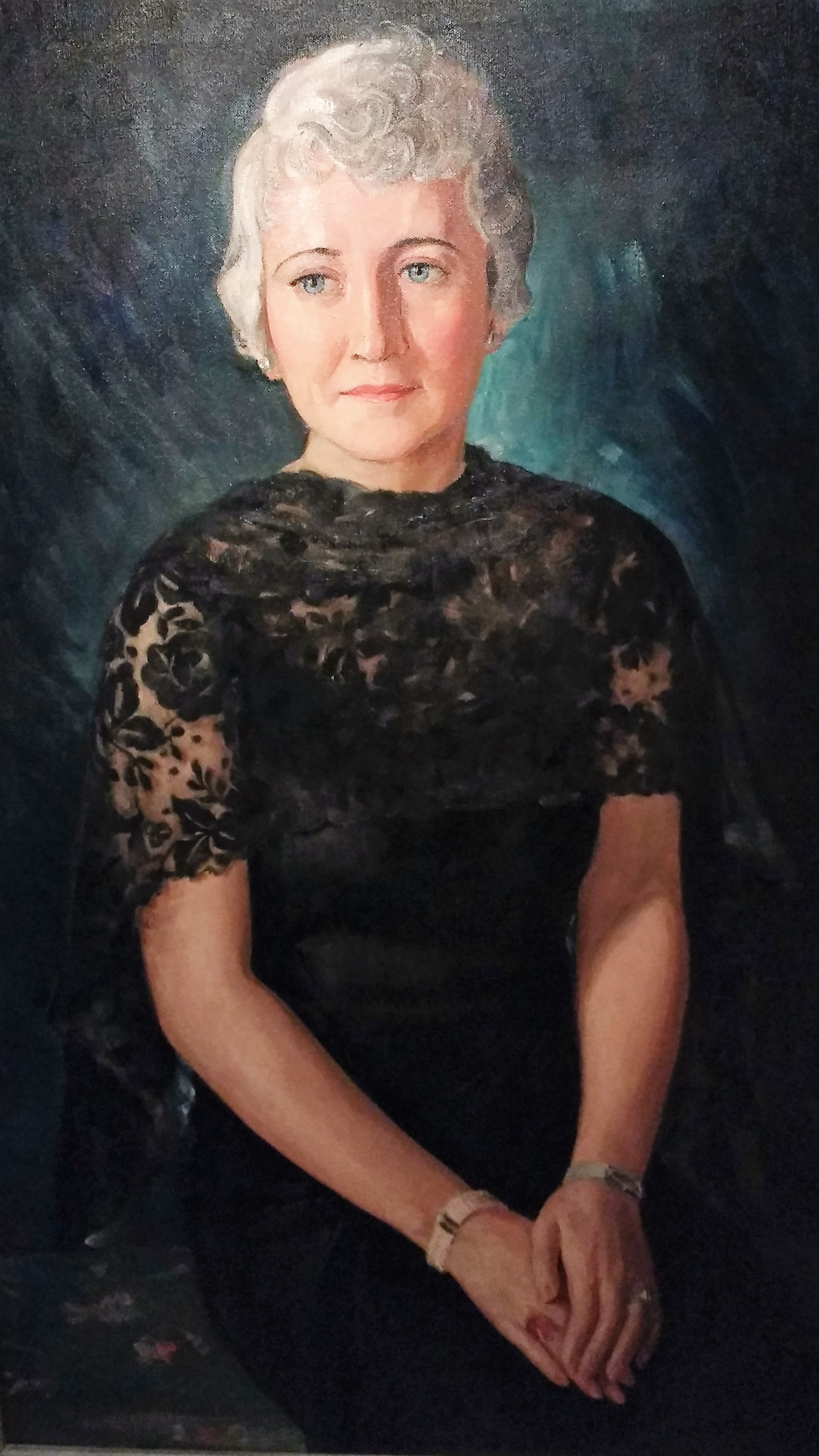 Oil Portrait of Woman in Black Lace, signed by Louise Brann, painted in 1935.